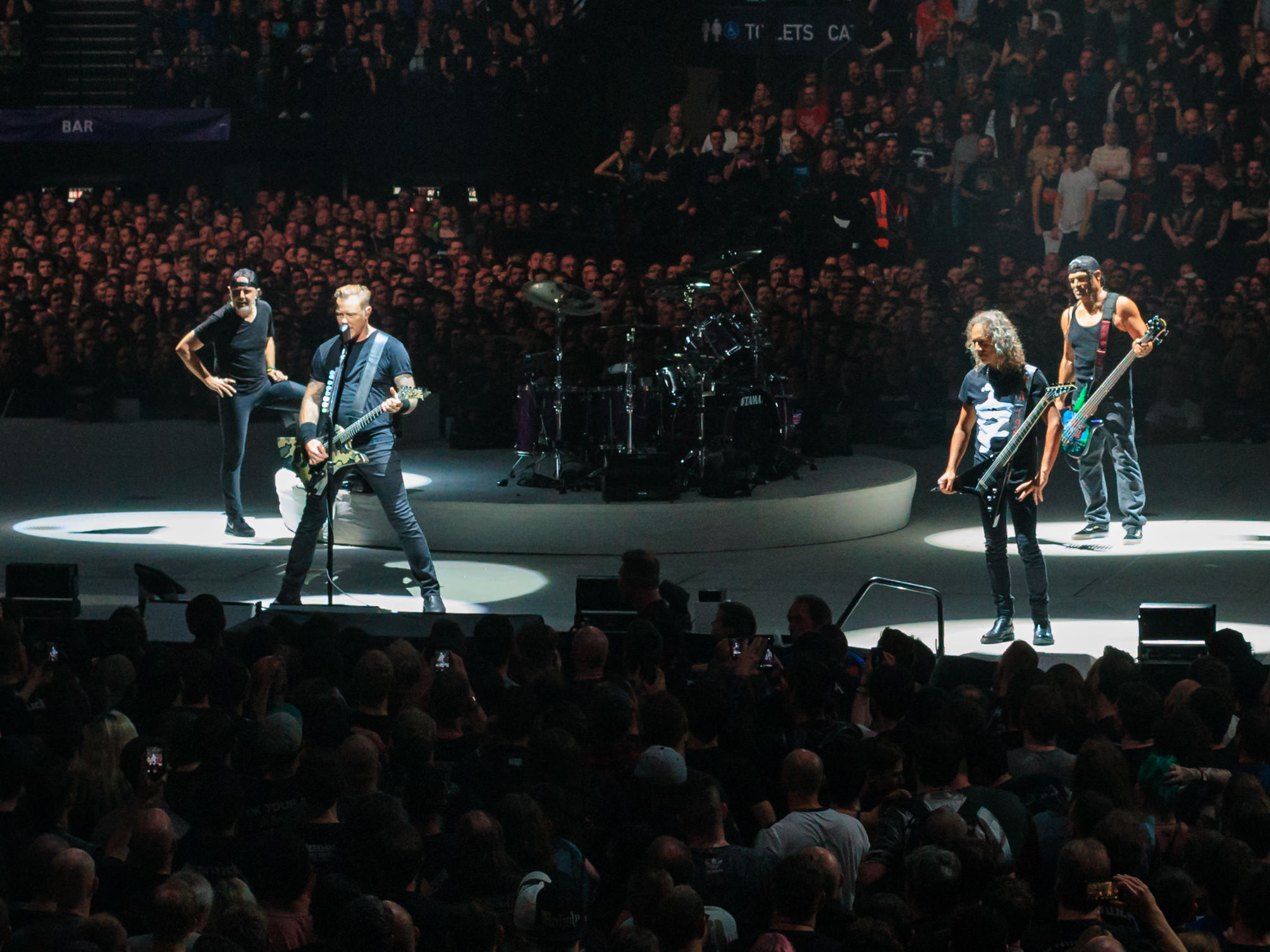 Metallica Live at The O2, London, England, 22 October 2017